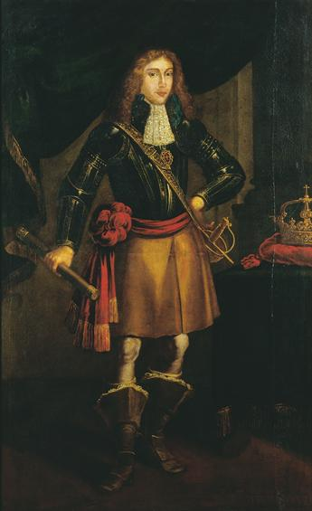 King Afonso VI of Portugal (1643-1683)